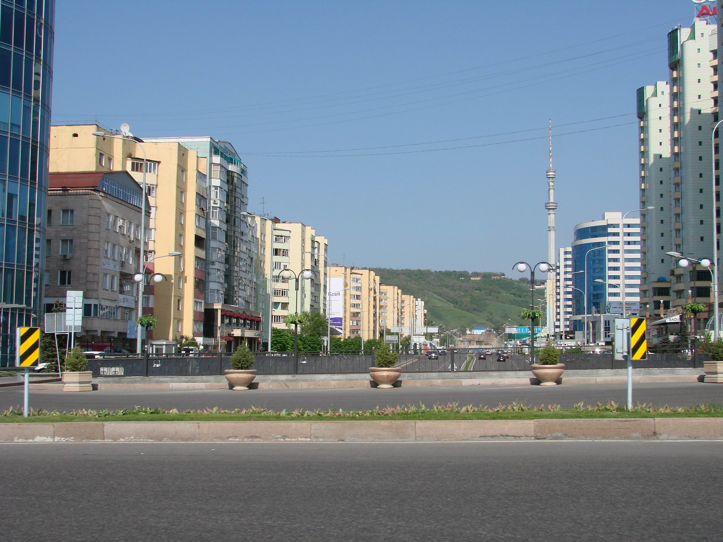 Samal, Almaty